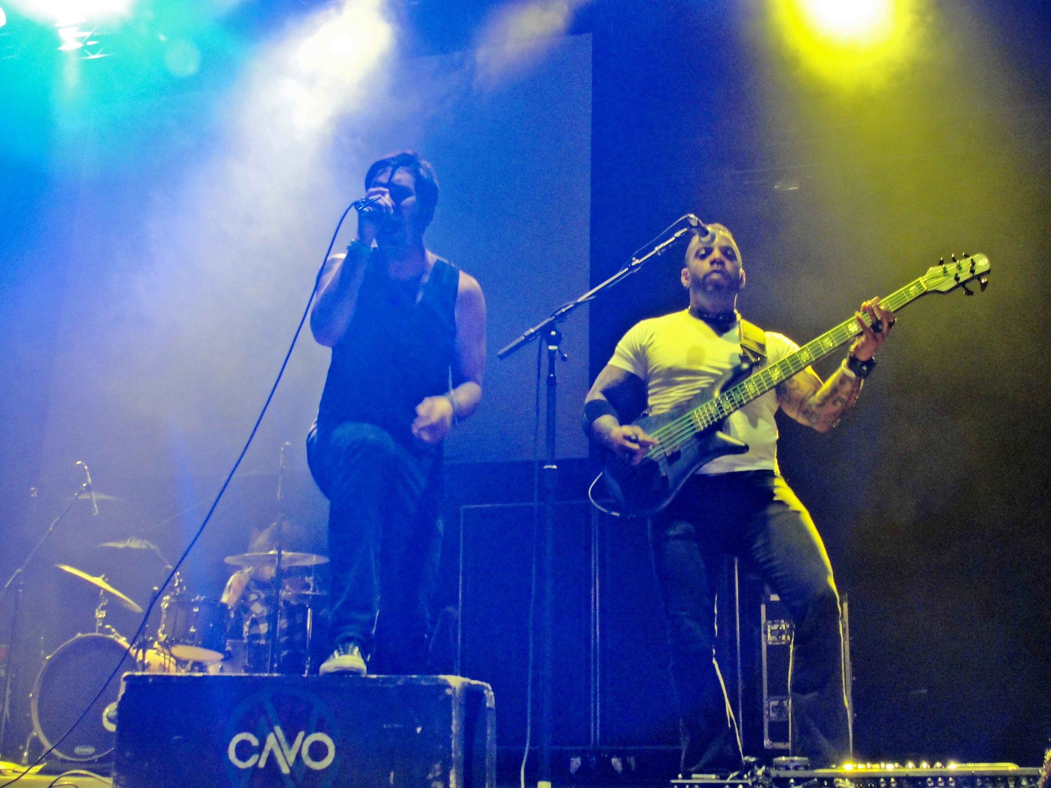 CAVO performing at the Laredo Energy Arena in Laredo, Texas August 14, 2012